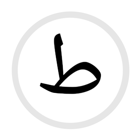 HS Letter (arabic alphabet)